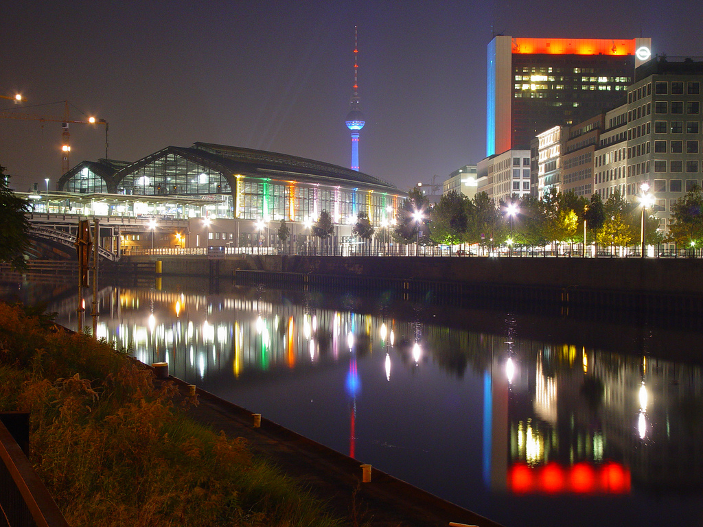 The Berlin train station "Friedrichstraße" in Berlin during the "Festival of Lights"